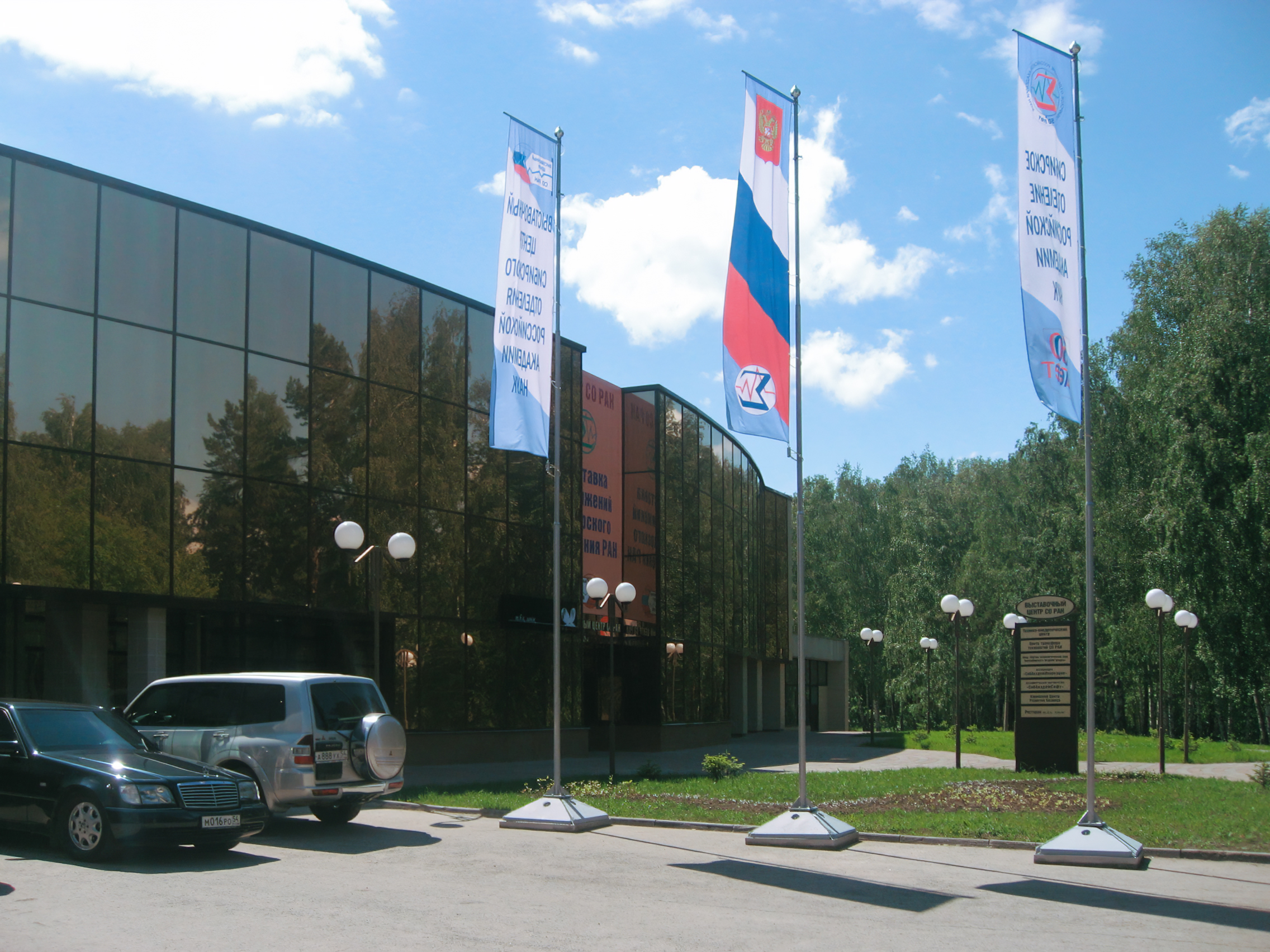 New Exhibition Centre in Akademgorodok